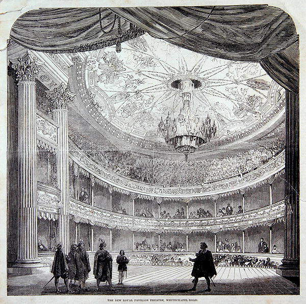 1858 engraving of the interior of the New Royal Theatre, Whitechapel Road, London. Ching Lau Lauro performed here at the beginning of his career on 3 September 1827.